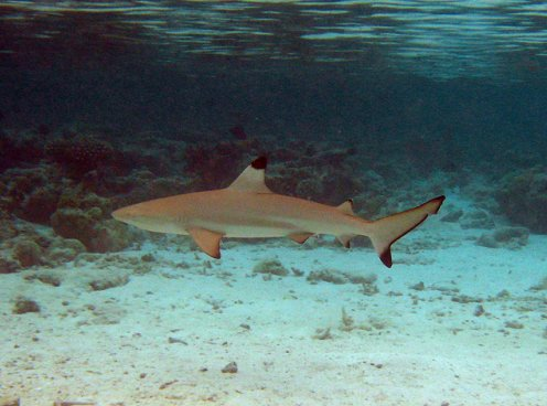 Blacktip reef shark (Carcharhinus melanopterus)